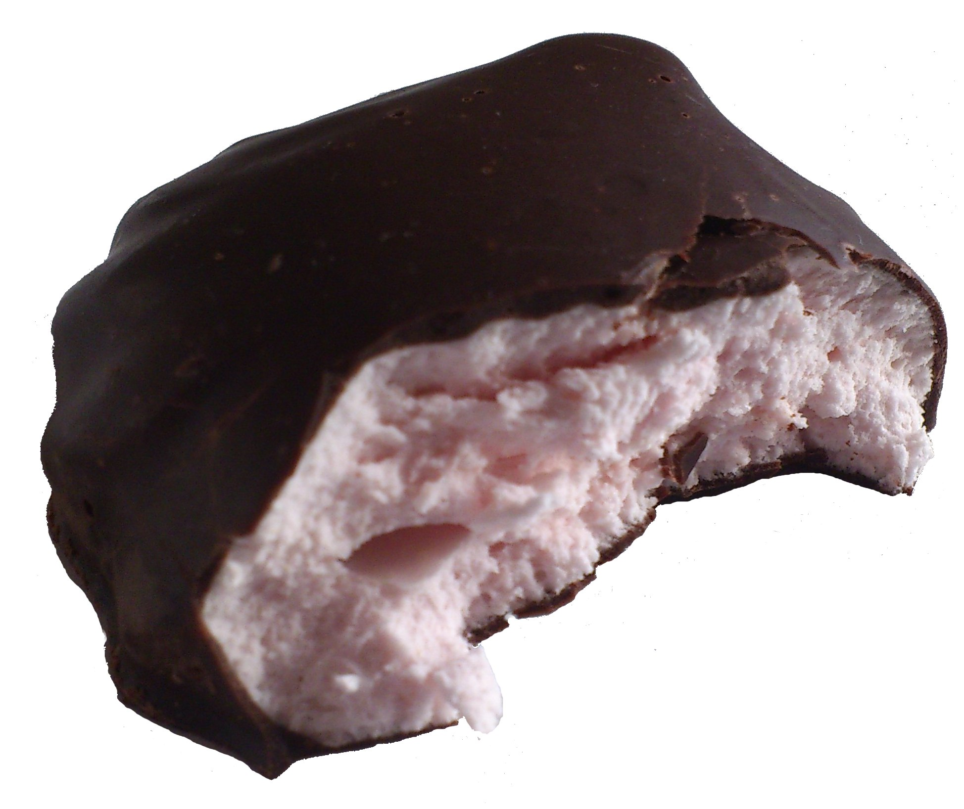 Chocolate-coated zephyr